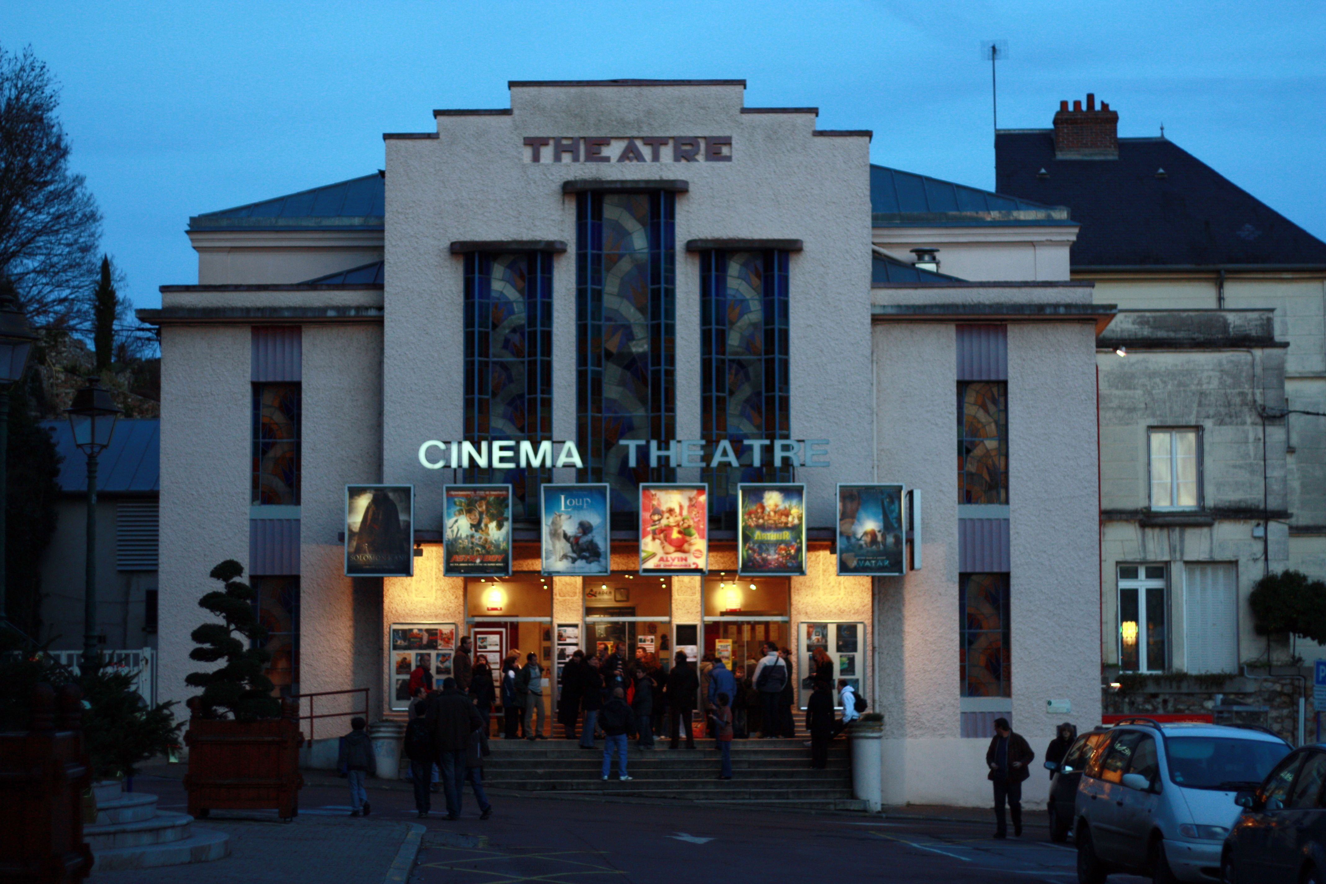 Cinema-Theater in Château-Thierry, France.